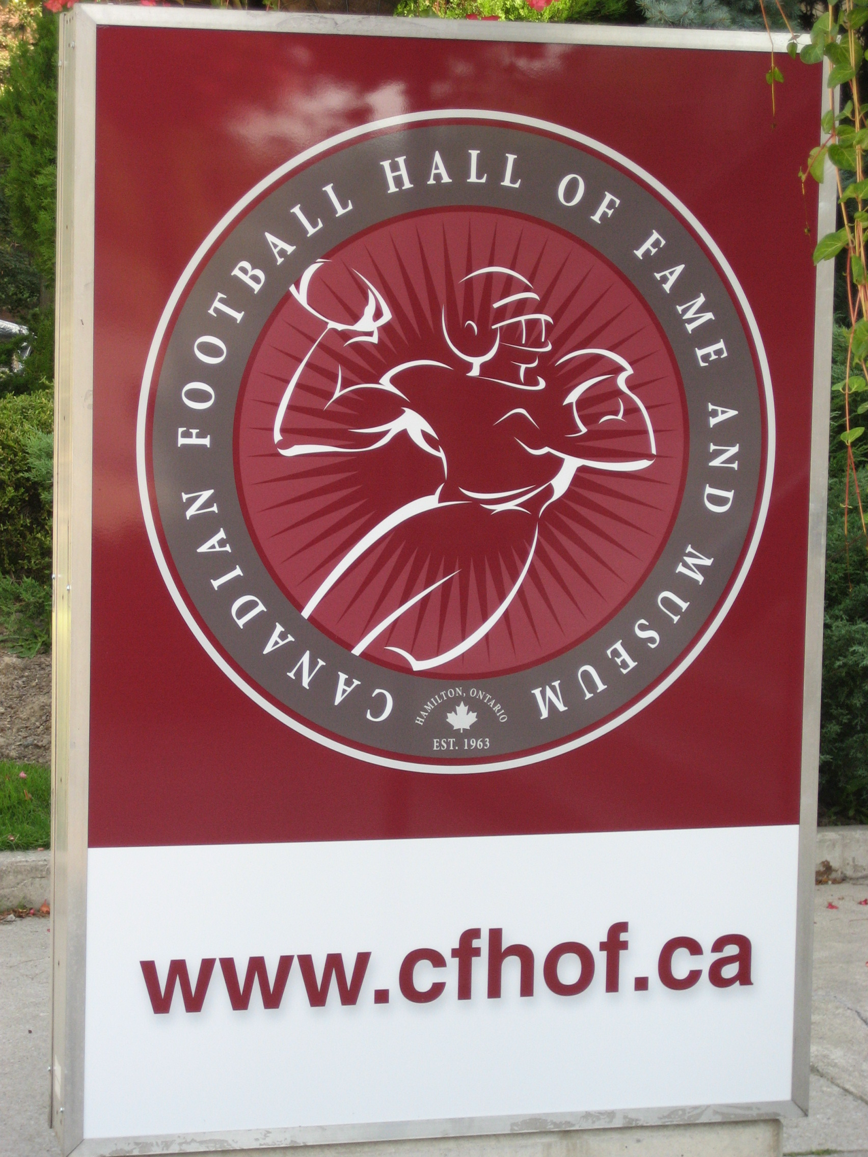 Canadian Football Hall of Fame logo, front entrance, Hamilton, Canada.